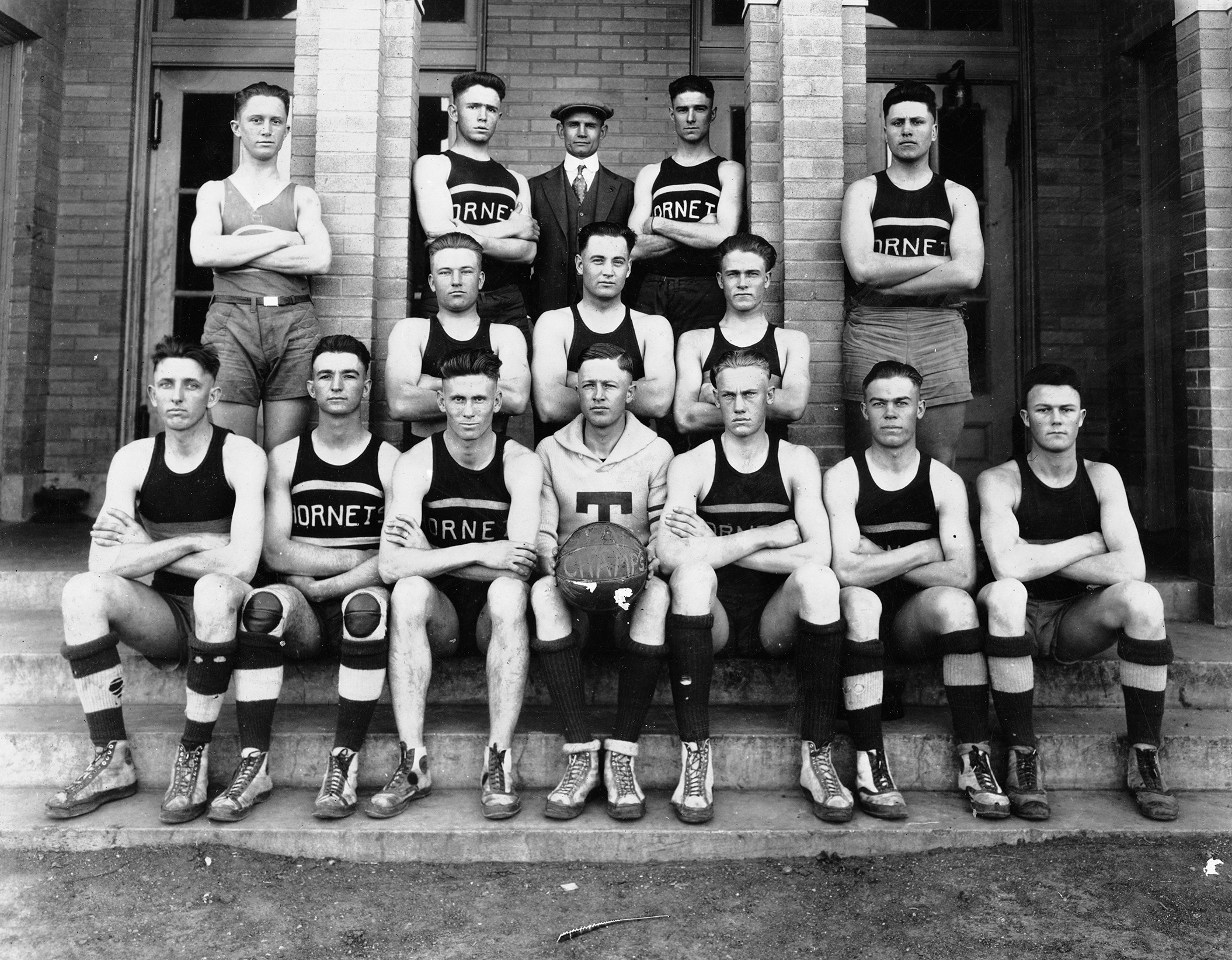 Grubbs Vocational College Hornets basketball team holding ball that reads "Champs".